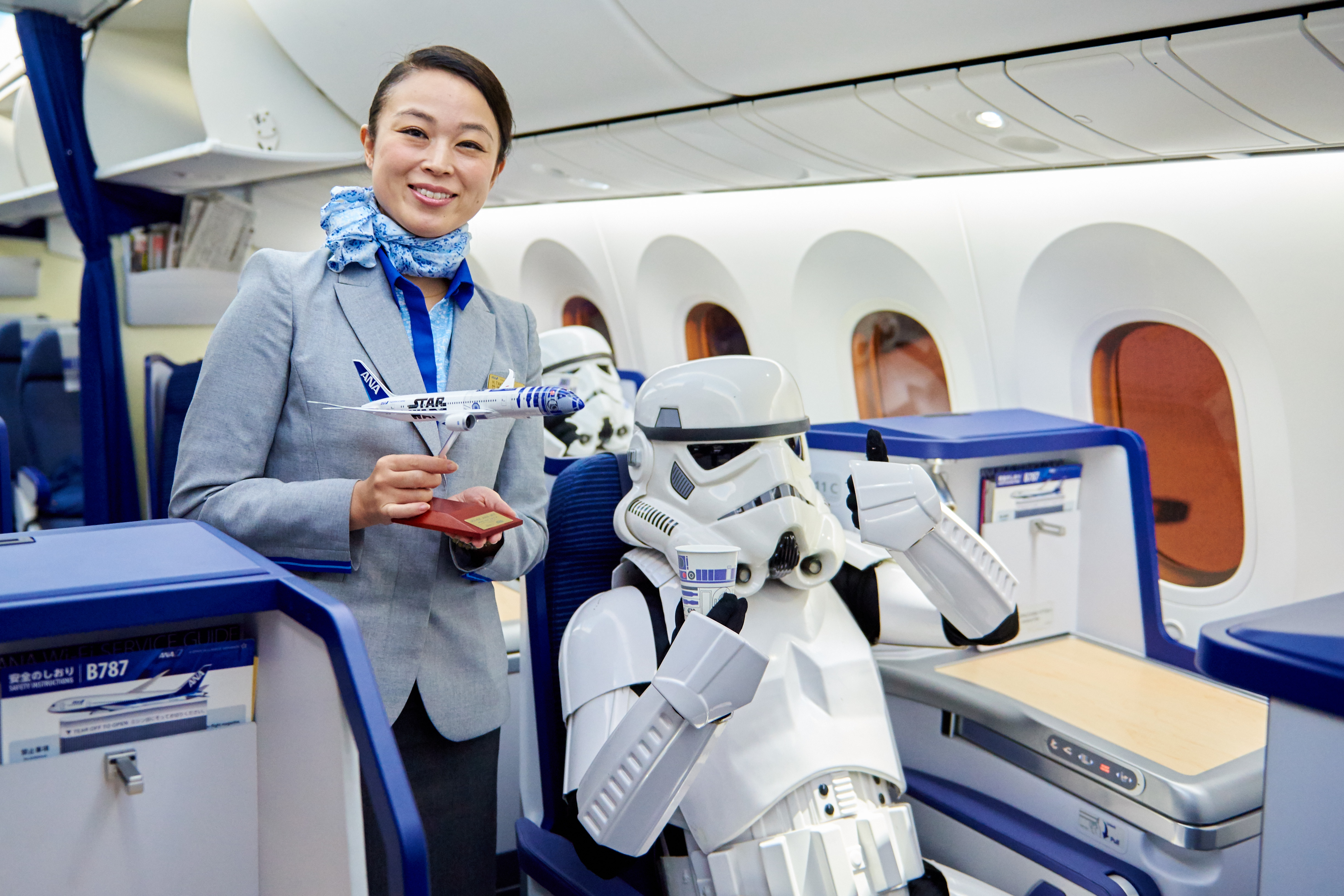 Inaugural flight of the R2-D2 jet to Brussels Airport